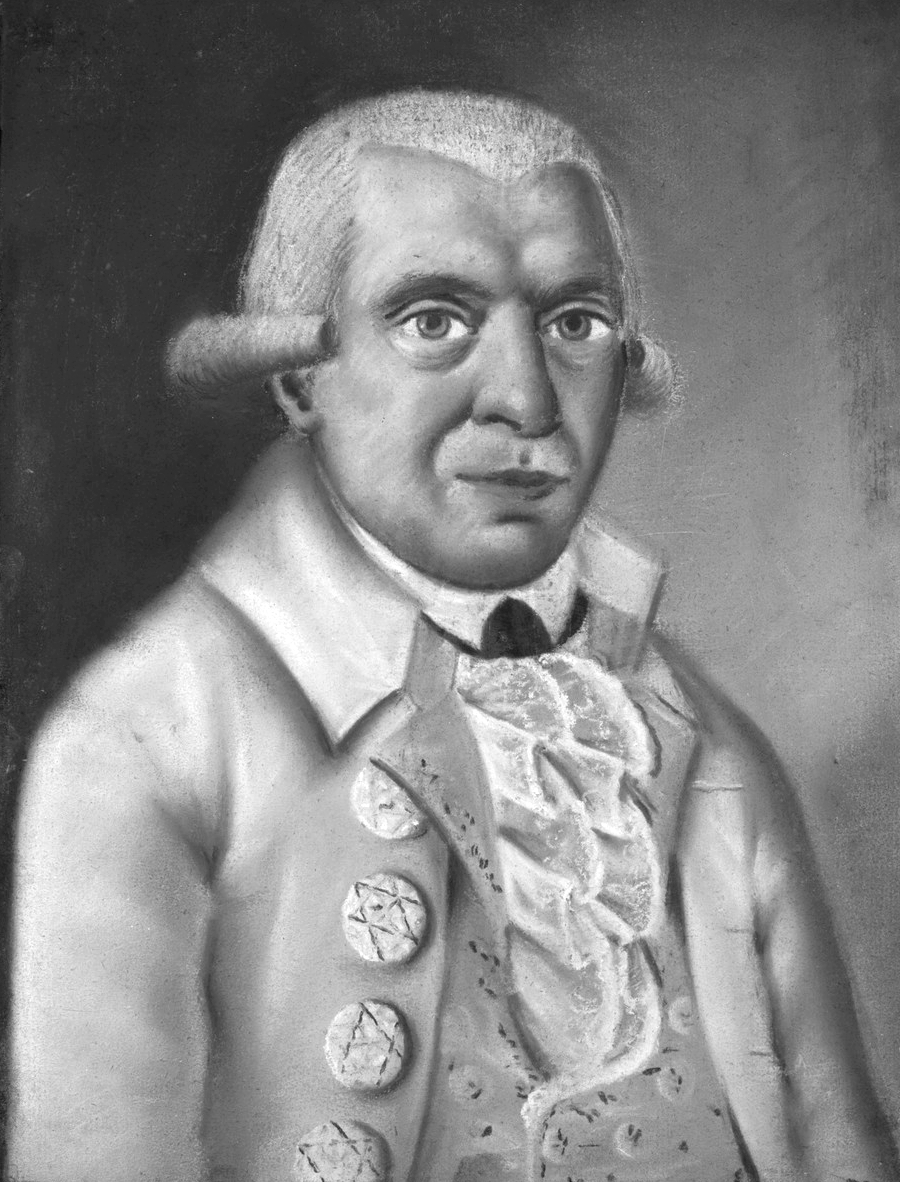 Conrad Moench – pharmacist, chemist and professor of botany at the Collegium Carolinum, Professor of Botany in Kassel and Marburg